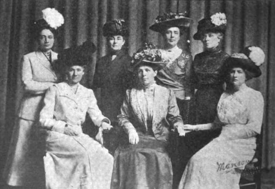 Seven white women (three seated, four standing) posed for a group photograph. They are all wearing long skirts and large hats. Several are wearing suit jackets.